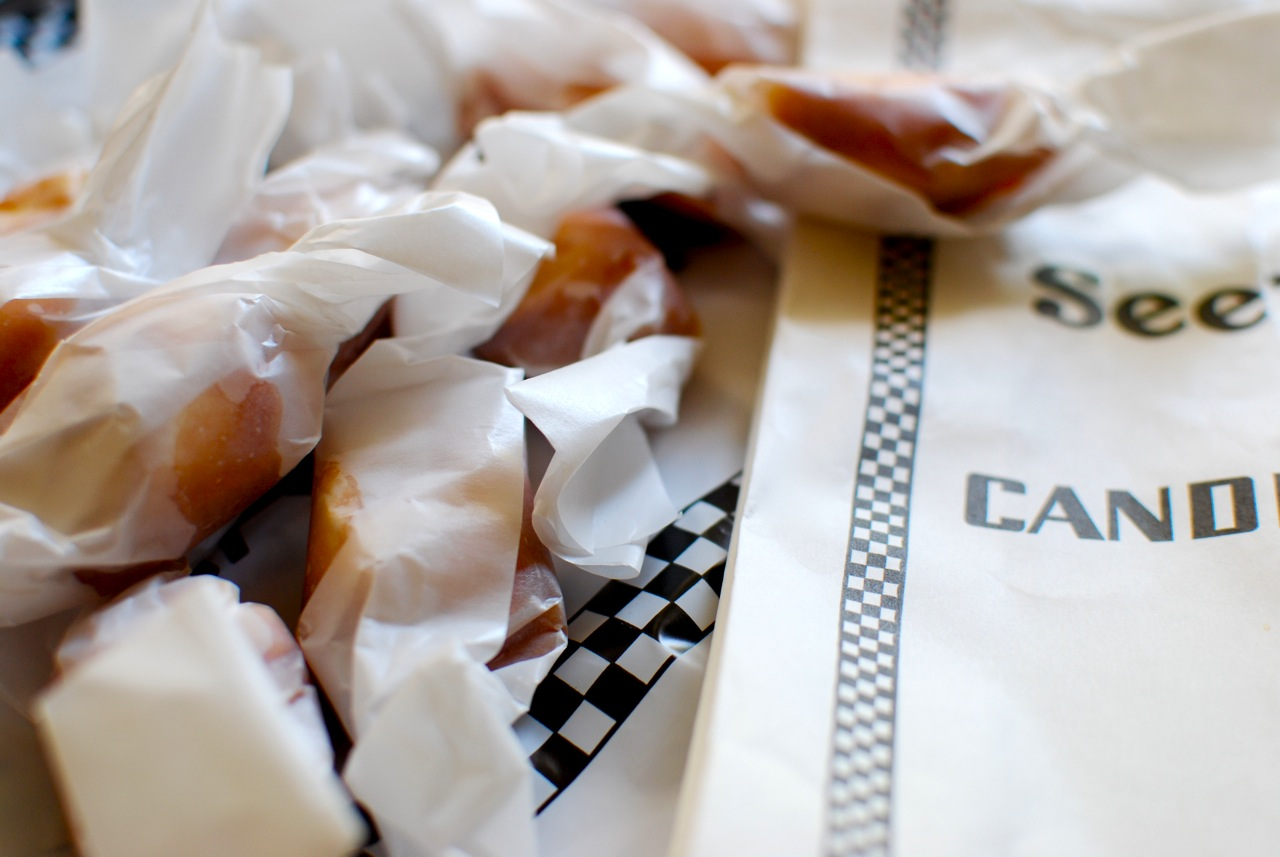 My favorite treat by See's Candies. The Scotch Kiss is a perfect marshmallow wrapped in soft caramel. This candy is also known as the "caramel biscuit" or "modjeska", which dates as far back as 1883. I also like that they are wrapped individually in parchment paper.